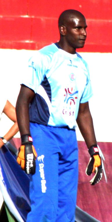 Max at Itumbiara's practice